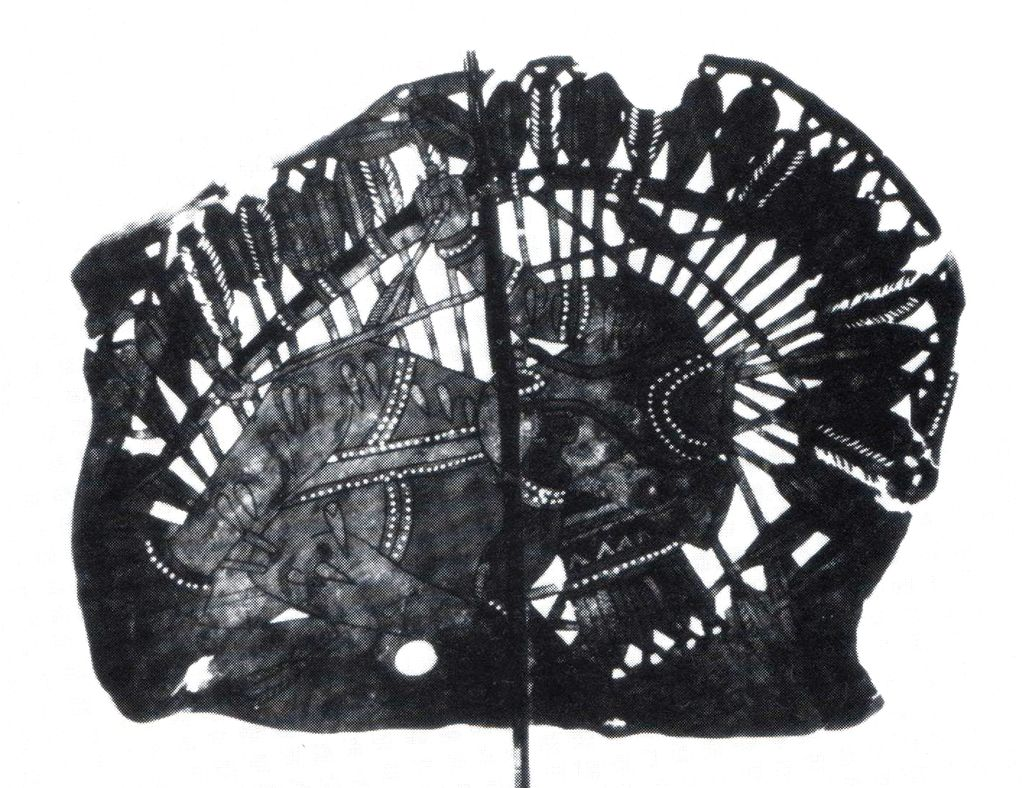 Indrajit, Shadow puppet from Pinguli village, Sawantwadi, Maharashtra